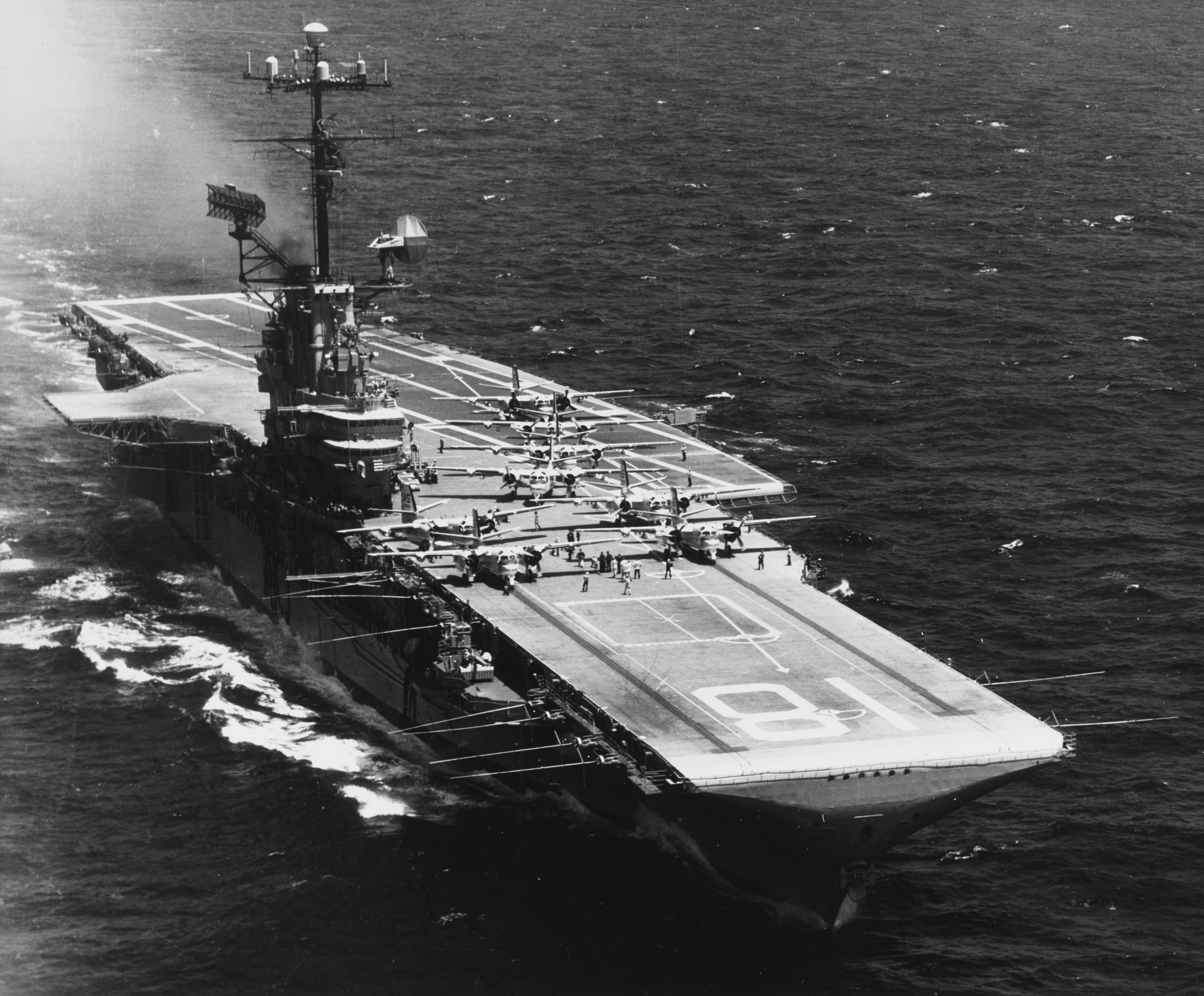 The U.S. Navy aircraft carrier USS Wasp (CVS-18) underway, circa in early 1967. On deck are Grumman S-2E Tracker aircraft of Carrier Anti-Submarine Air Group 52 (CVSG-52). This photograph was included with a 11 February 1967 USS Wasp press release, concerning her appearance at New Orleans' Mardi Gras festivities.